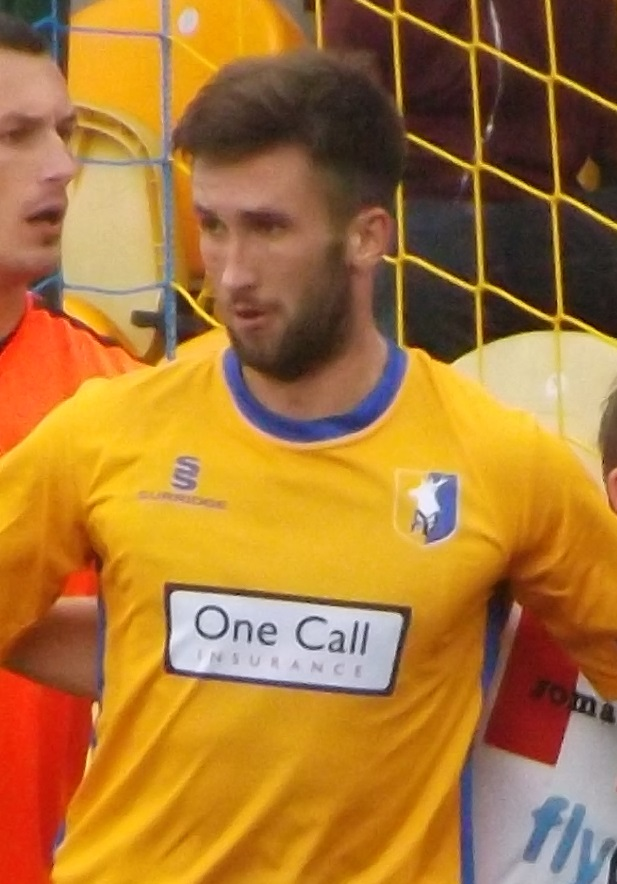 Ollie Palmer. Image cropped from original at flickr